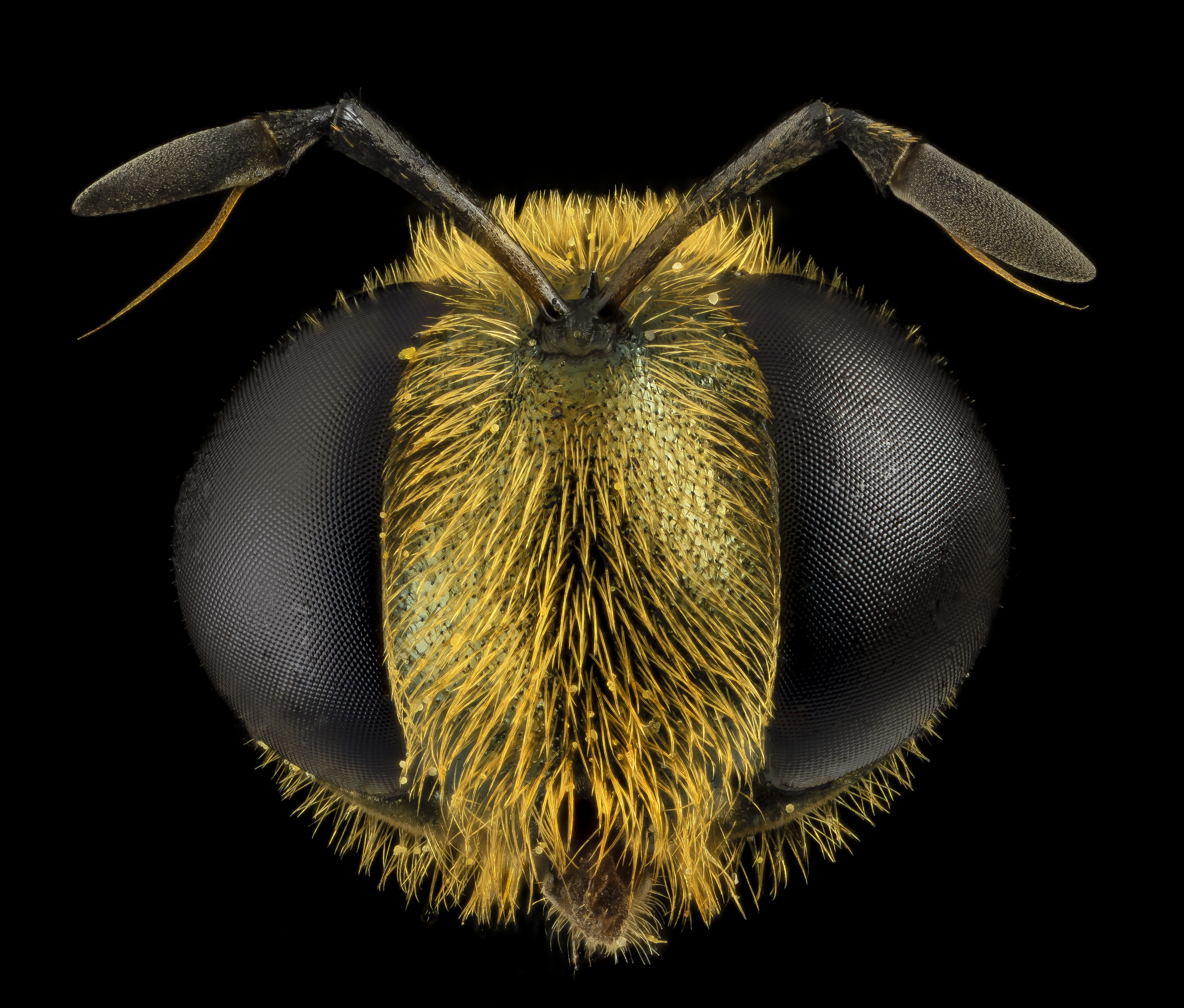 A Syrphid fly in the genus Microdon. A lovely bee mimic and one that I had not seen before. Critters in the Genus Microdon complete their larval life cycle inside ant nests. Beltsville, Maryland Canon Mark II 5D, Zerene Stacker, Stackshot Sled, 65mm Canon MP-E 1-5X macro lens, Twin Macro Flash in Styrofoam Cooler, F5.0, ISO 100, Shutter Speed 200, link to a .pdf of our set up is located in our profile